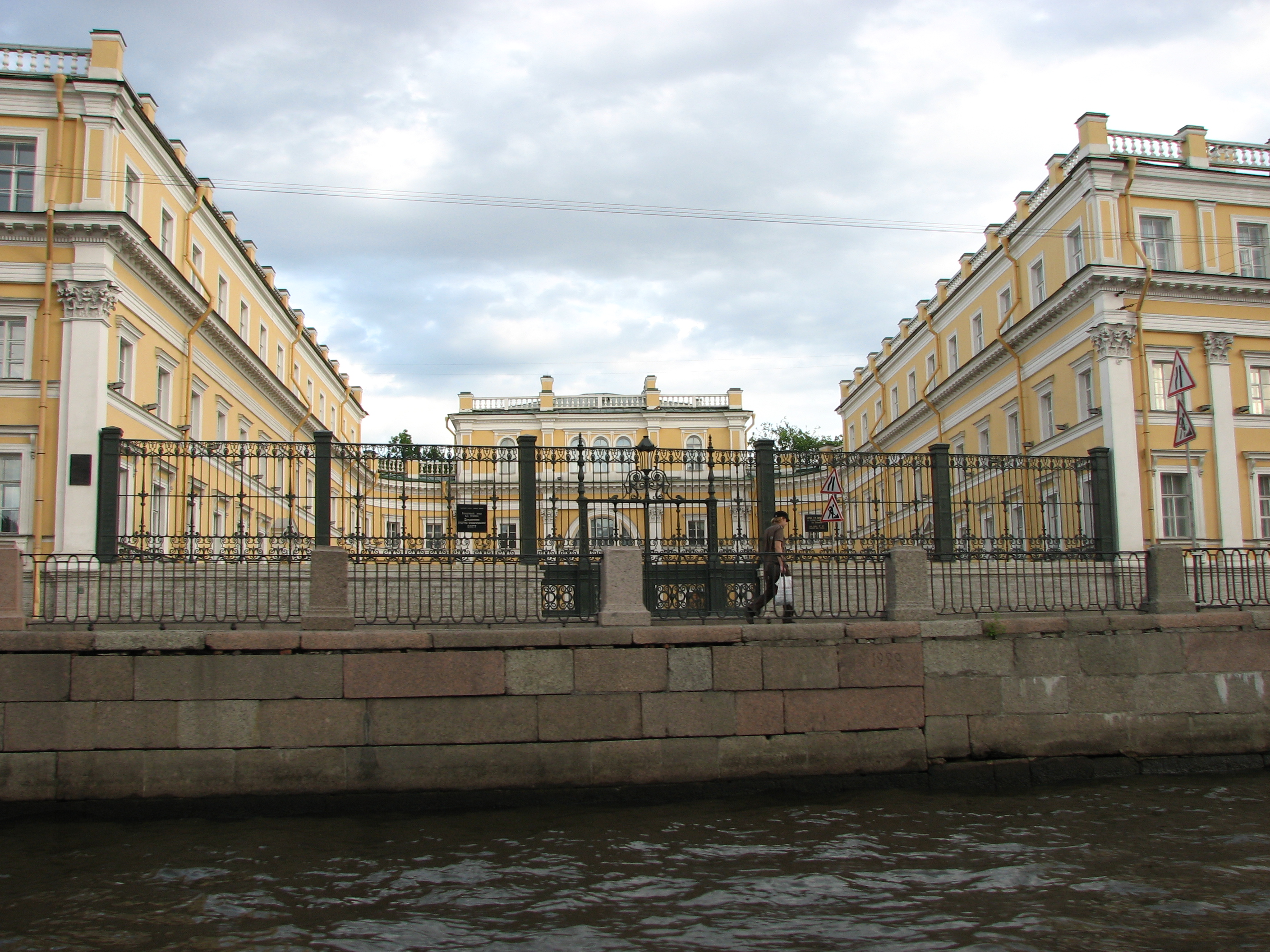 Saint Petersburg (Russia), Fontanka, The Gavrila Derzhavin Museum.